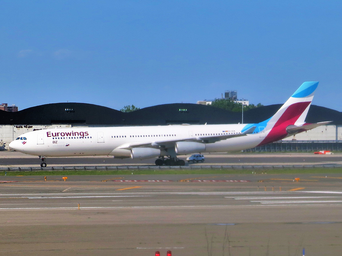 A Eurowings Airbus A340-300 is parked in the north cargo area at John F. Kennedy Airport, sitting on the ground for 9 hours before the return flight to Dusseldorf.